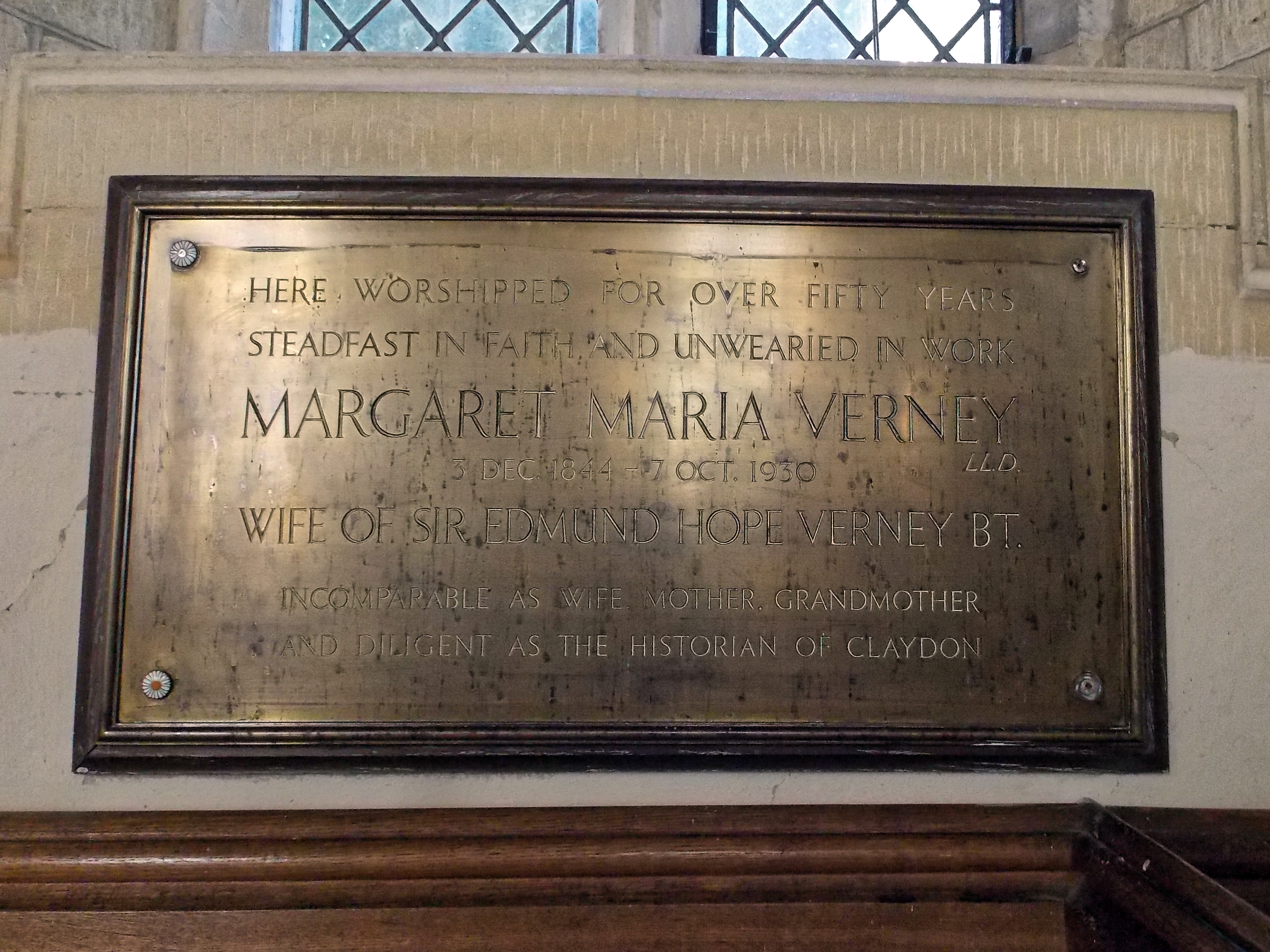 Brass plaque to Margaret Maria Verney (1844–1930), wife of Sir Edmund Hope Verney (1838–1910), she an historian of Claydon, in the parish Church of All Saints, Middle Claydon, Buckinghamshire, England.Software: JPEG file optimized and/or cropped and/or spun with DxO OpticsPro 10 Elite and Adobe Photoshop CS2.